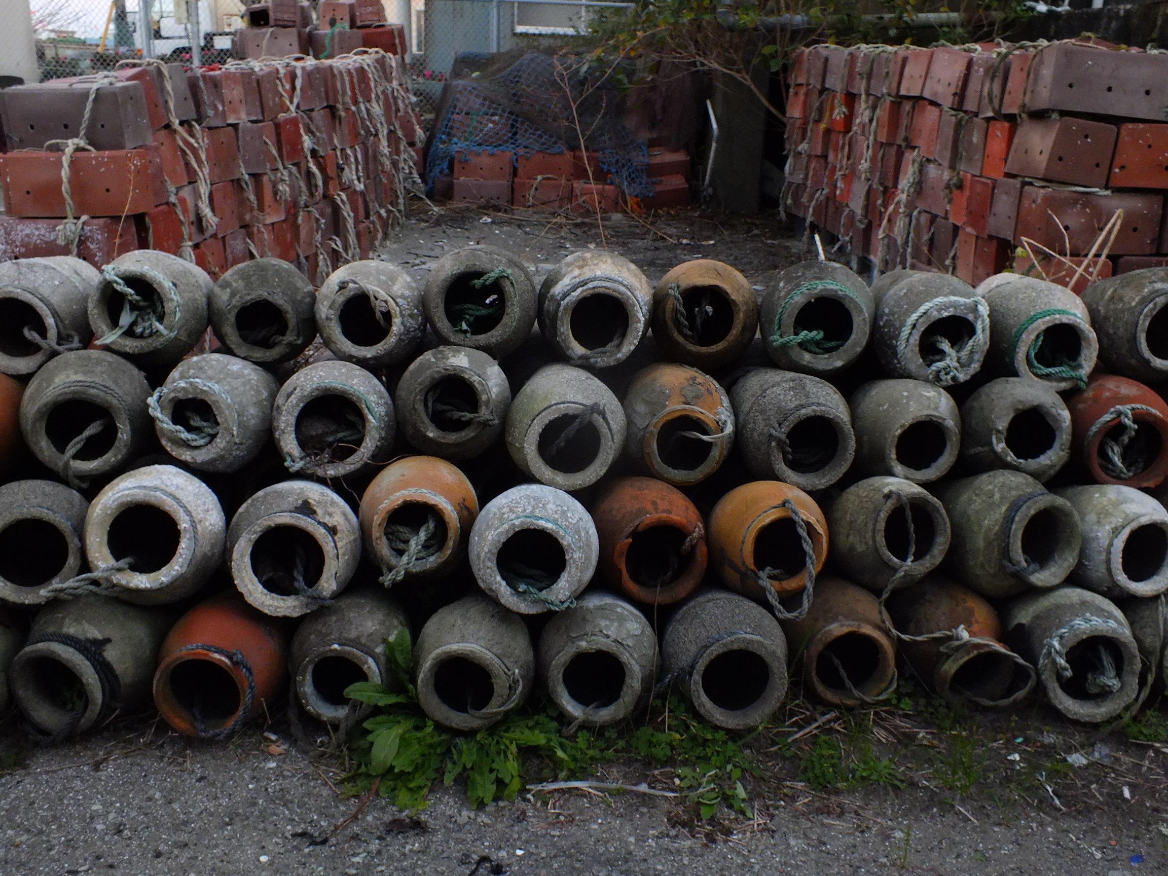 Ohara Fishing Port in Isumi City, Chiba Prefecture, Japan